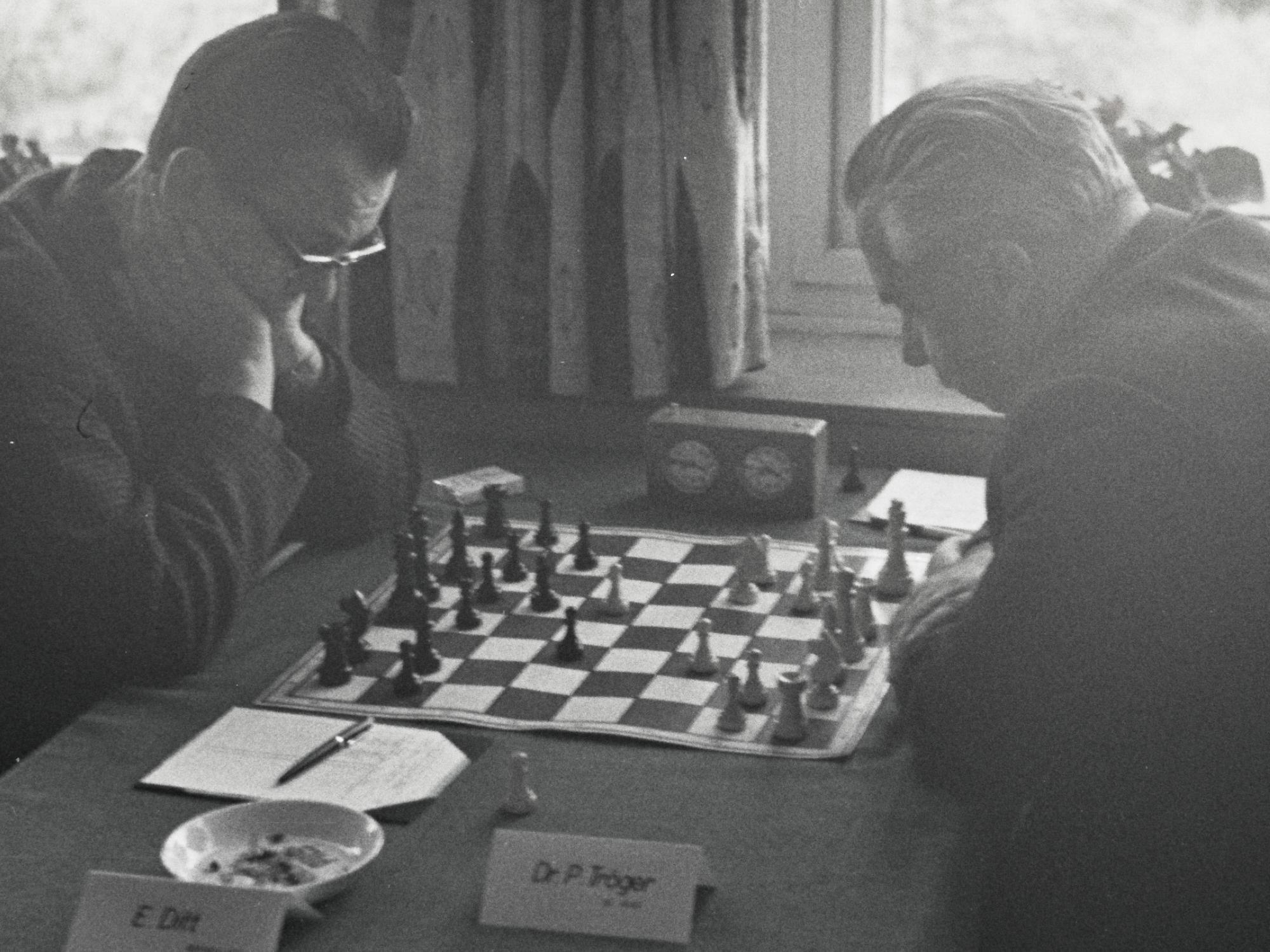 Egon Ditt and Paul Tröger, 1966 at Porz, Photographer Gerhard Hund.